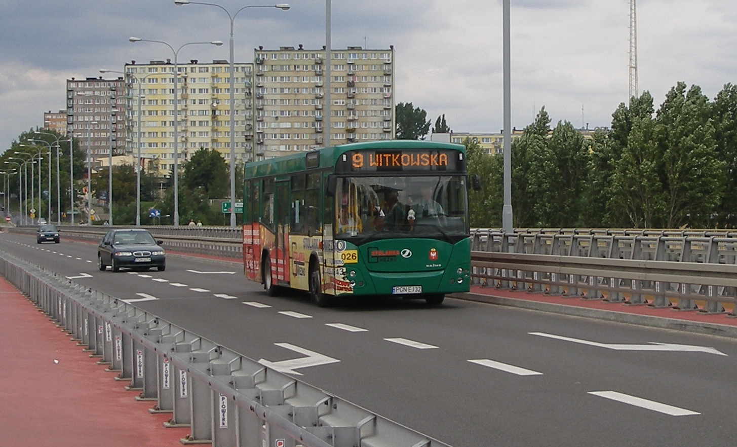 Jelcz M101I/3 Salus bus (#026, reg. PGN EJ32) - Wiadukt Solidarności - Gniezno, Poland. Built 2005, MPK Gniezno operator.